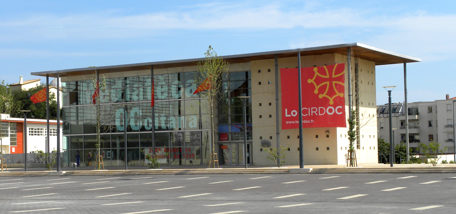 Lo CIRDÒC